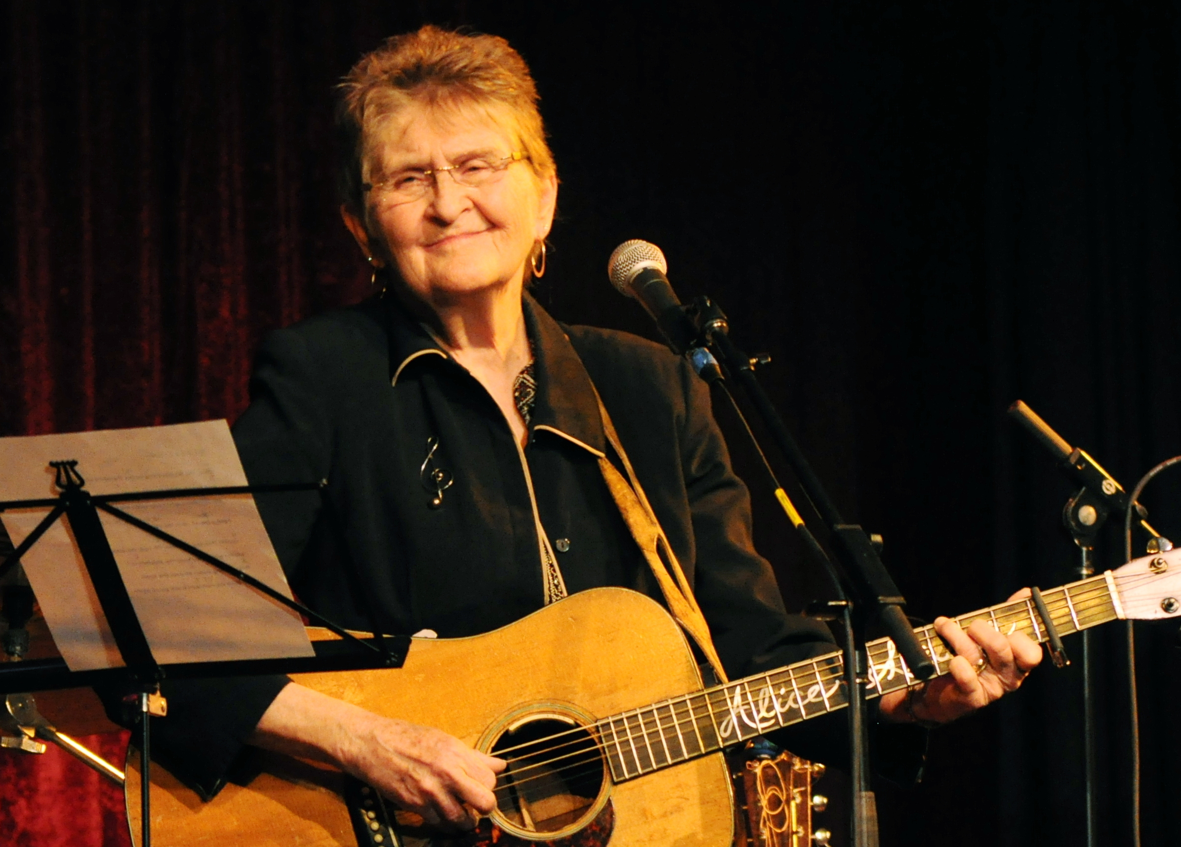 Blues and folk musician Alice Stuart playing at a tribute to Ron Davies, Hale's Palladium, Seattle, Washington, USA.